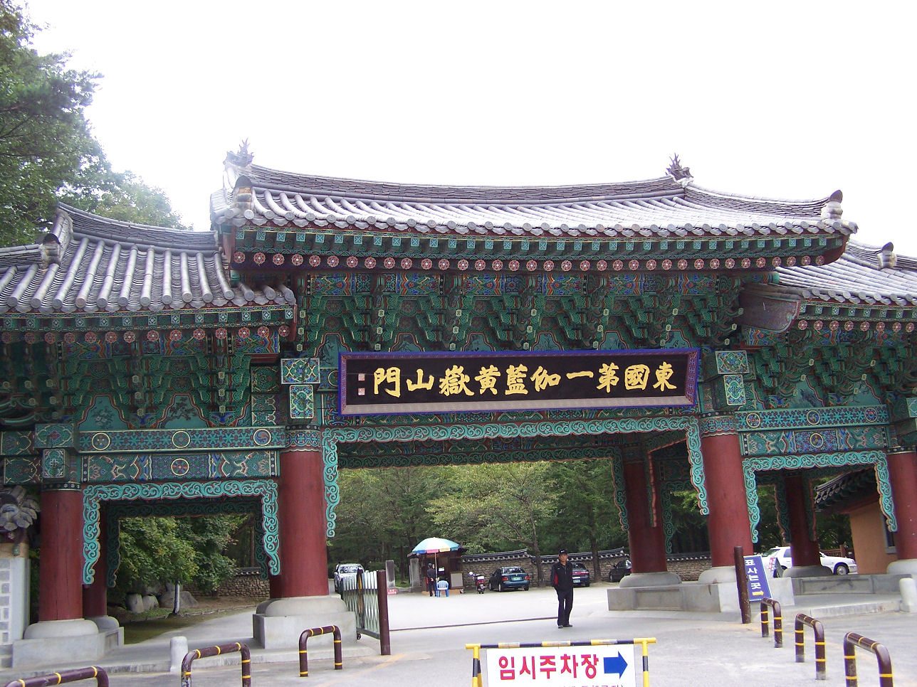 Picture of the entrance to Jikji Temple in South Korea